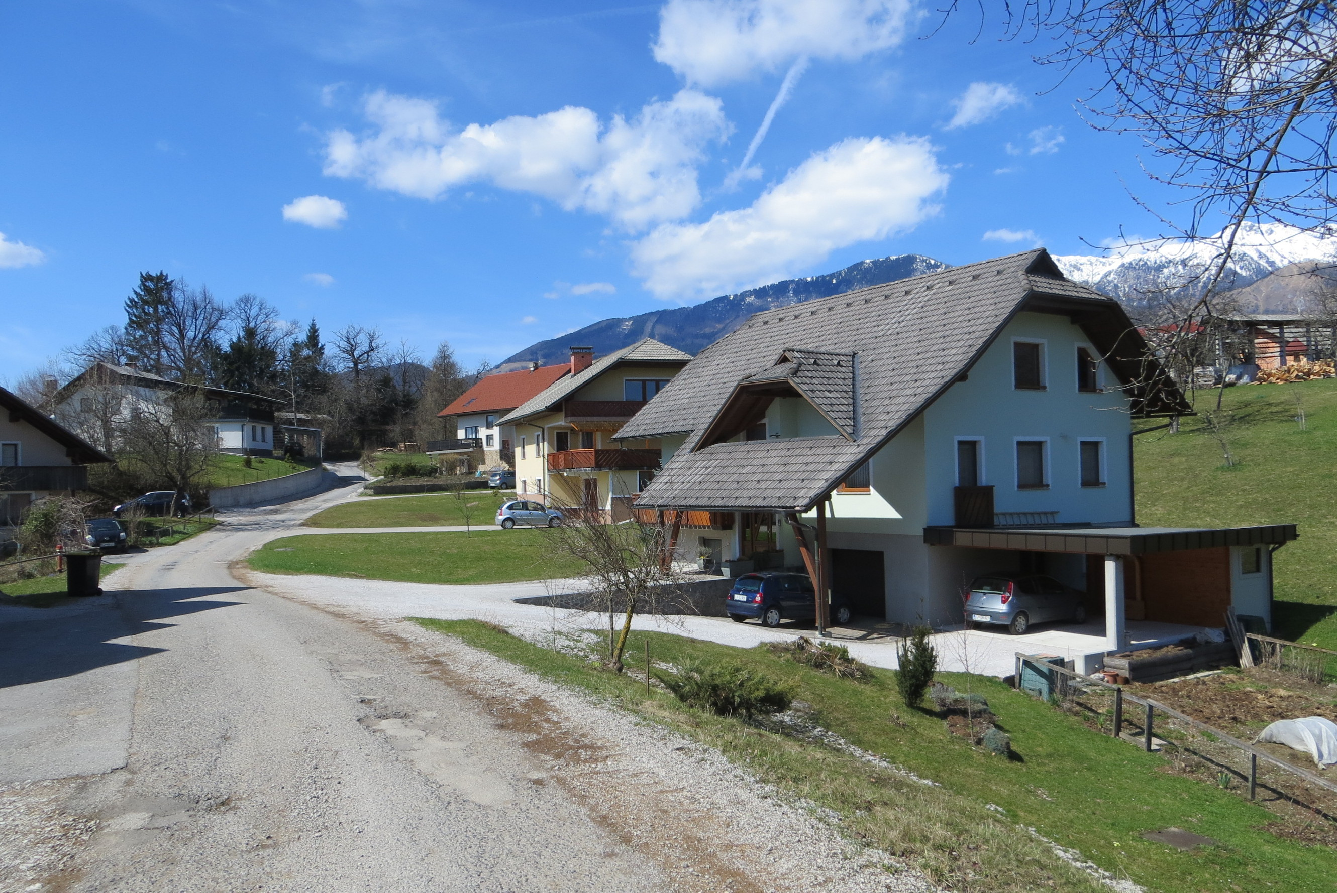 Stolnik, Municipality of Kamnik, Slovenia